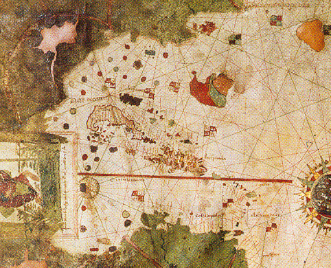 Map of Juan de la Cosa, 1500. Detail: Caribbean Sea region.